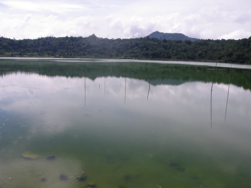 Danau Linow, Sulawesi, Indonesia